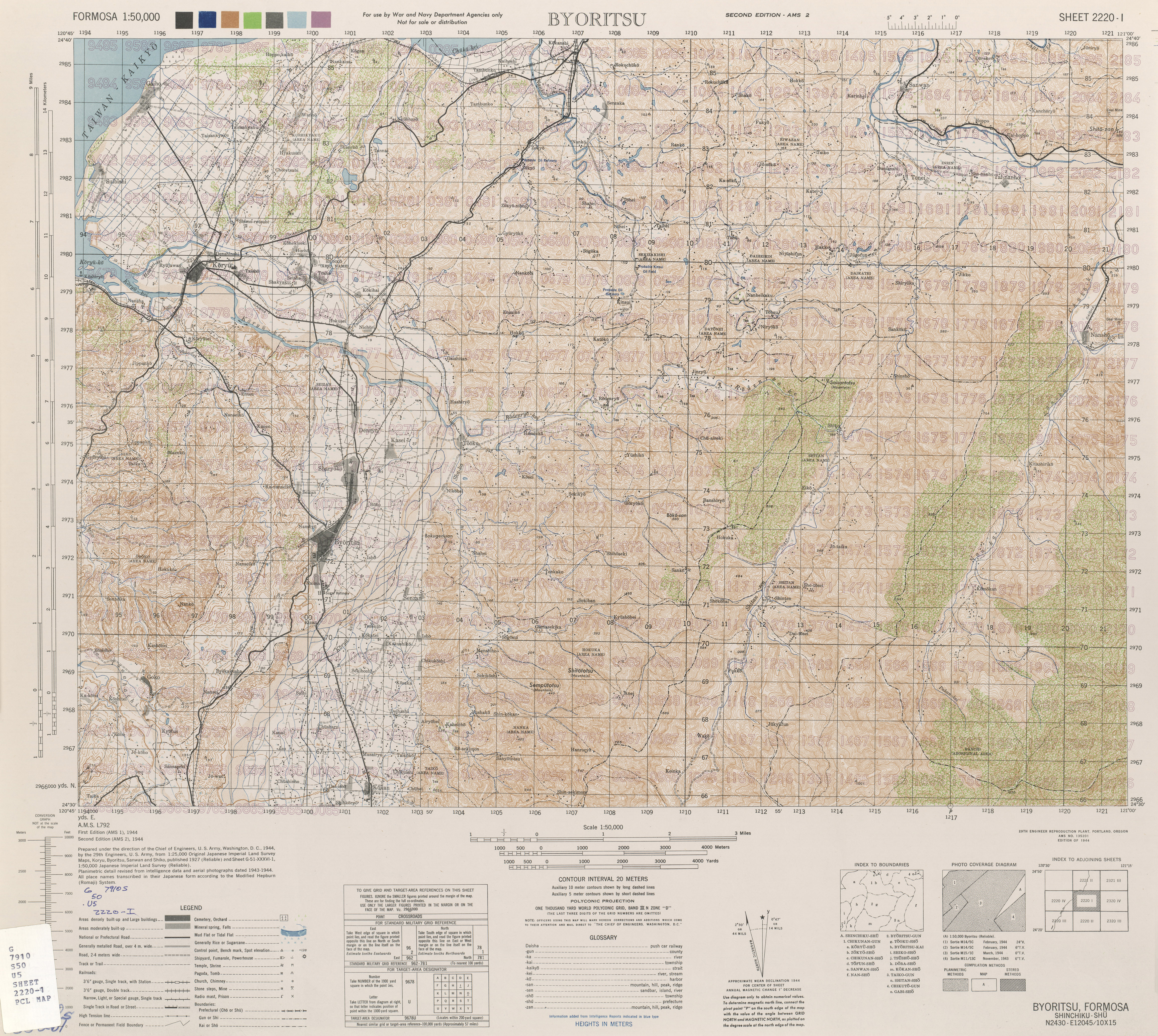 Map from Formosa (Taiwan) 1:50,000 AMS Series L792